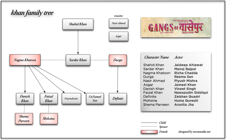 Gangs of Wasseypur Movie Khan Family Tree along with Actor Name